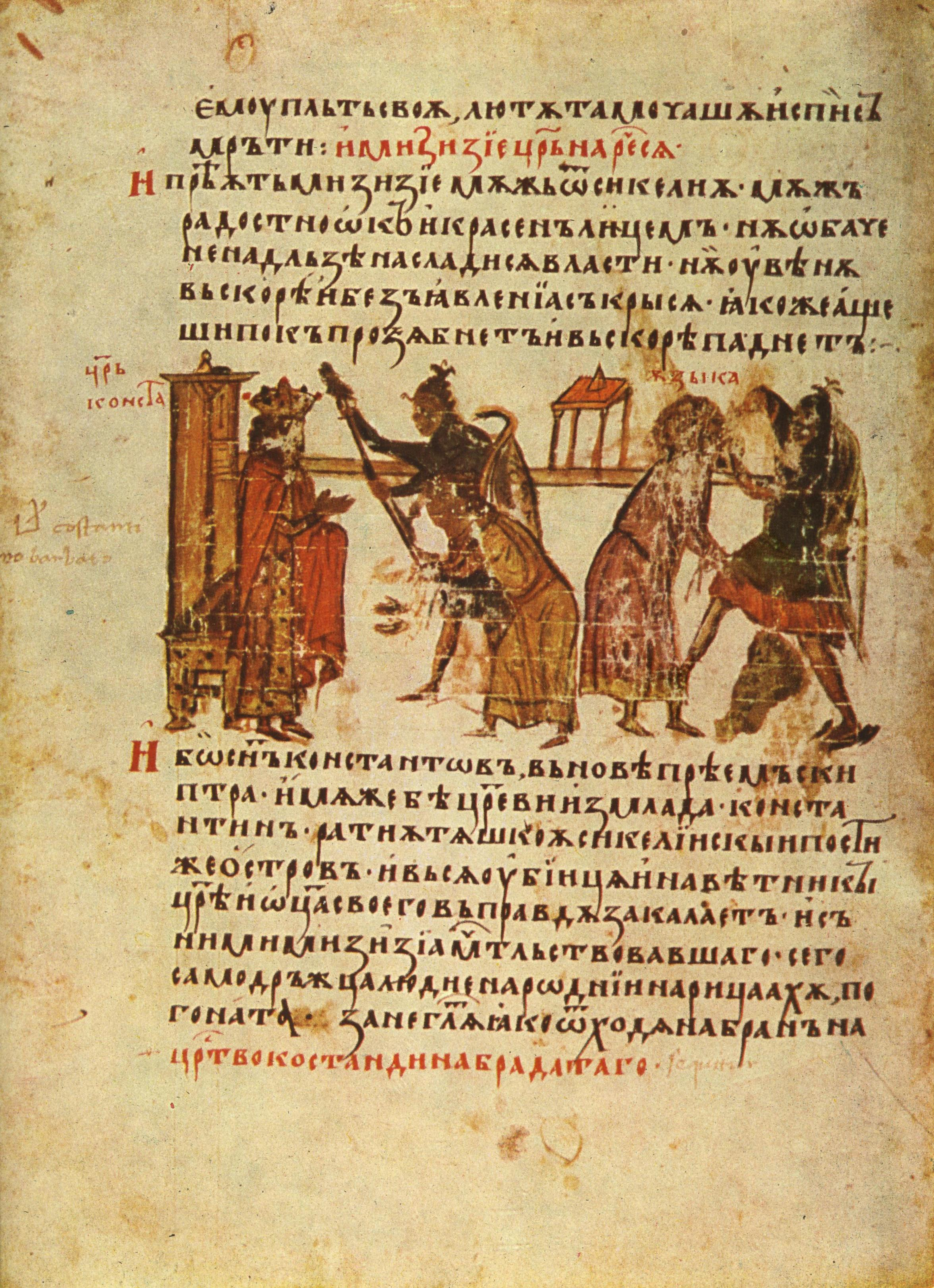 Miniature 44 from the Constantine Manasses Chronicle, 14 century: Martyrdom of Maximus the Confessor under the orders of emperor Constans II